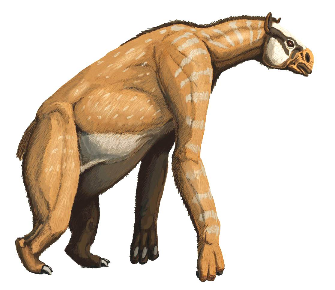 My picture is based on skeletal drawing of Chalicotherium from R. Carroll's book (Vertebrate Paleontology, vol.3). It was Chalicotherium grande. But today the right name of this species is Anisodon grande. By the way, probably picture needs some correction - the "claws" on forelimbs wasn't so "claws-like", they most resembling "hooves". Picture by myself